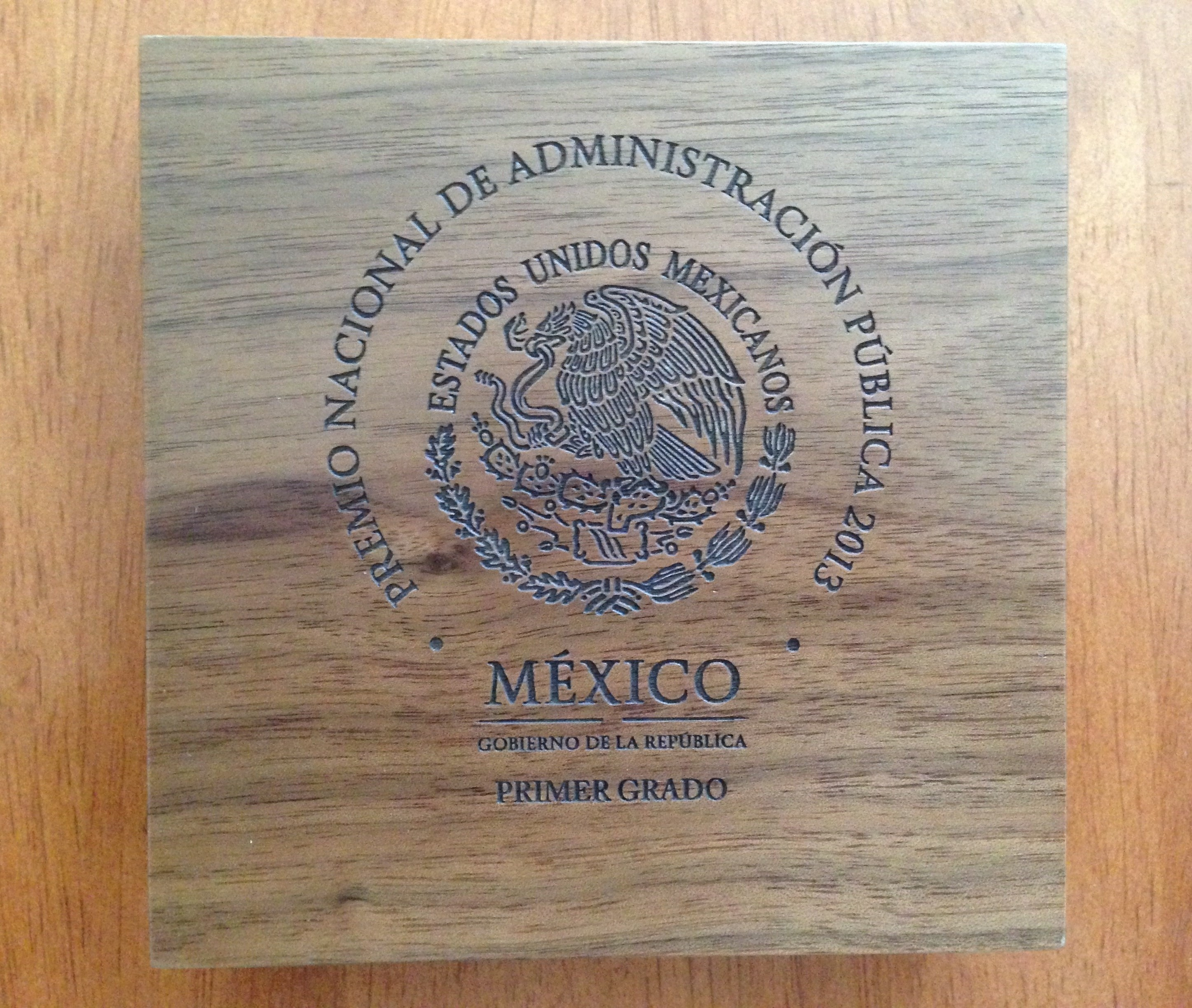 Box containing the gold medal for the 1st Class of Mexico's National Public Administration Prize awarded to Alfonso de Alba